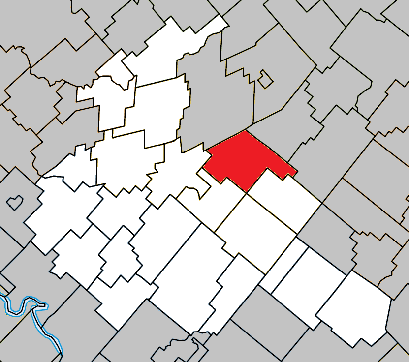 Location of Saint-Norbert-d'Arthabaska, Quebec within Arthabaska Regional County Municipality.